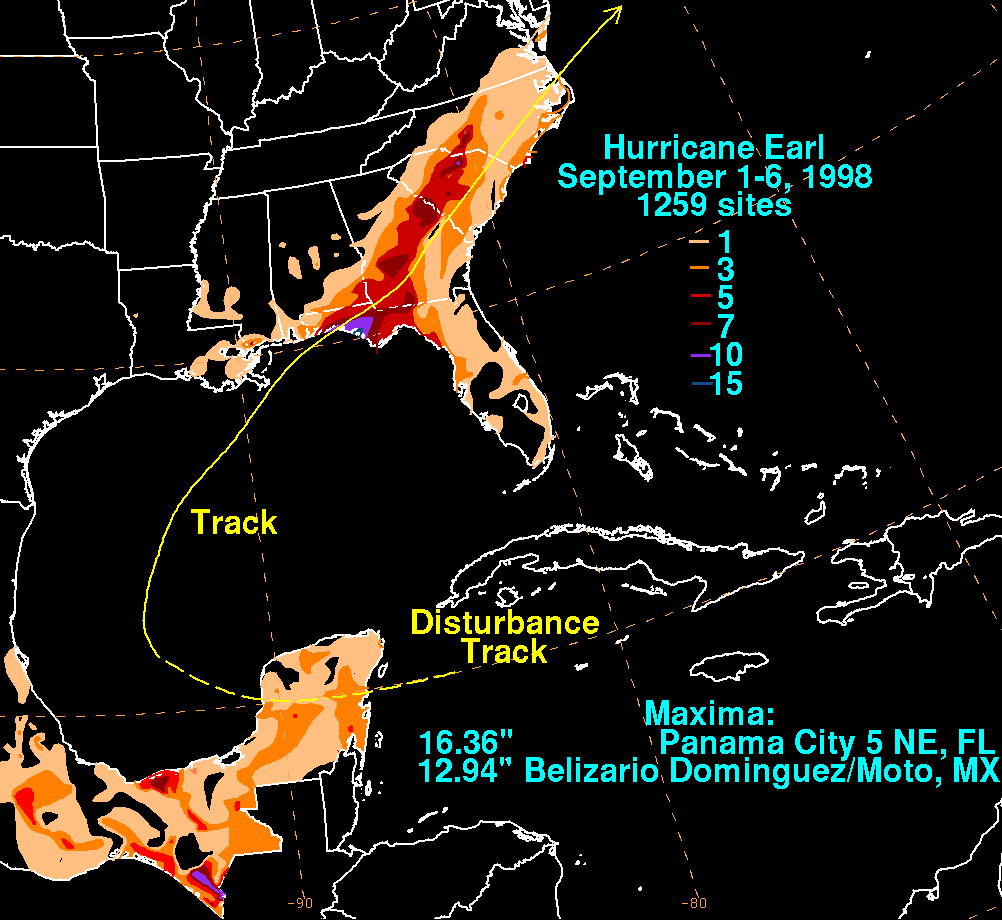 Rainfall produced by Hurricane Earl during September 1998.